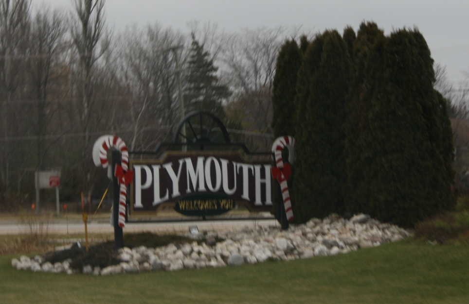 The city welcome sign for Plymouth, Wisconsin from Wisconsin Highway 57.